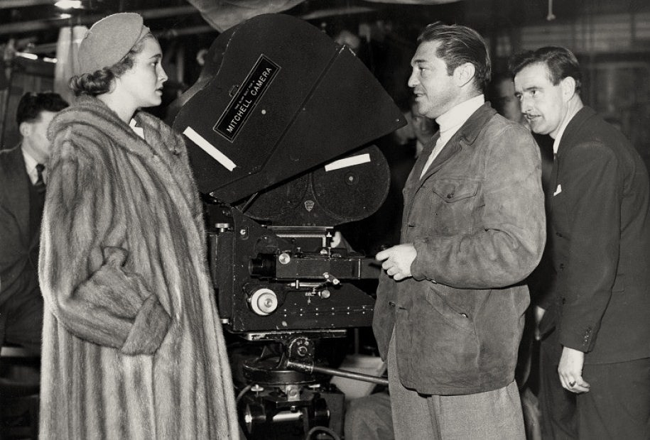 L. to R. : Patricia Neal, Vincent Sherman (director) and Wilkie Cooper (cinematographer) on the set of The Hasty Heart (1949) - publicity still